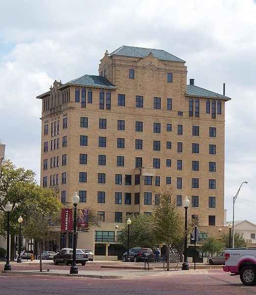 The Marshall Grand in Marshall, Texas was the former Hotel Marshall. Taken in 2011.